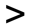 In Arial, a greater-than symbol